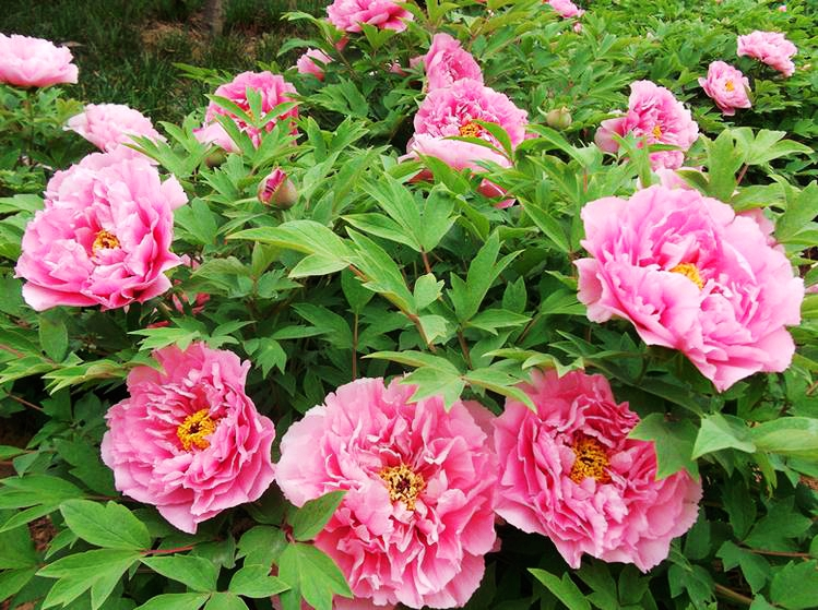 Luoyang peony